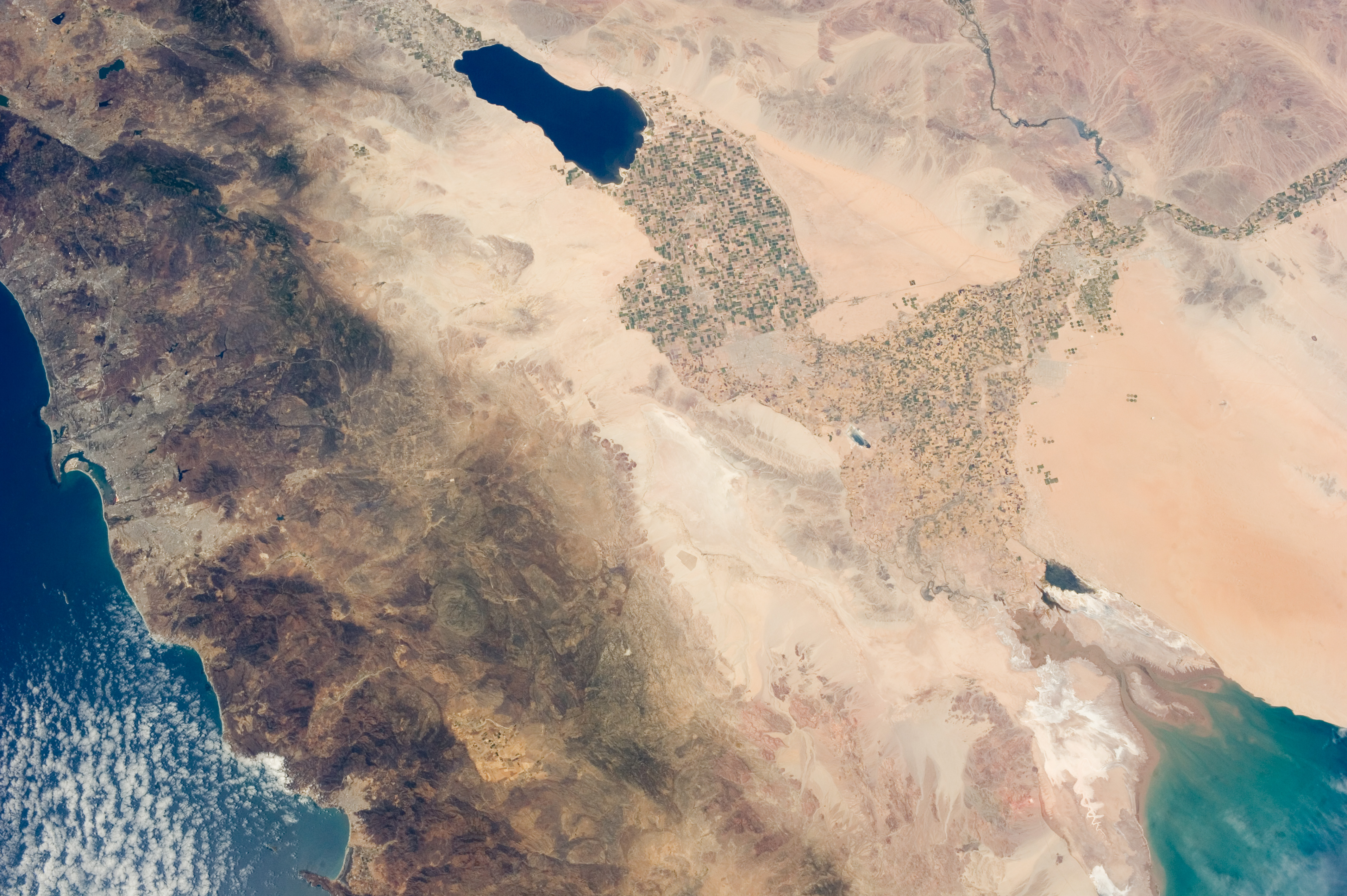 The Salton Trough is featured in this image photographed by an Expedition 36 crew member on the International Space Station. The Imperial and Coachella Valleys of southern California – and the corresponding Mexicali Valley and Colorado River Delta in Mexico – are part of the Salton Trough, a large geologic structure known to geologists as a graben or rift valley that extends into the Gulf of California. The trough is a geologically complex zone formed by interaction of the San Andreas transform fault system that is, broadly speaking, moving southern California towards Alaska; and the northward motion of the Gulf of California segment of the East Pacific Rise that continues to widen the Gulf of California by sea-floor spreading. According to scientists, sediments deposited by the Colorado River have been filling the northern rift valley (the Salton Trough) for the past several million years, excluding the waters of the Gulf of California and providing a fertile environment – together with irrigation for the development of extensive agriculture in the region (visible as green and yellow-brown fields at center). The Salton Sea, a favorite landmark of astronauts in low Earth orbit, was formed by an irrigation canal rupture in 1905, and today is sustained by agricultural runoff water. A wide array of varying landforms and land uses in the Salton Trough are visible from space. In addition to the agricultural fields and Salton Sea, easily visible metropolitan areas include Yuma, AZ (upper right); Mexicali, Baja California, Mexico (center); and the San Diego-Tijuana conurbation on the Pacific Coast (left). The approximately 72-kilometer-long Algodones Dunefield is visible at upper right.